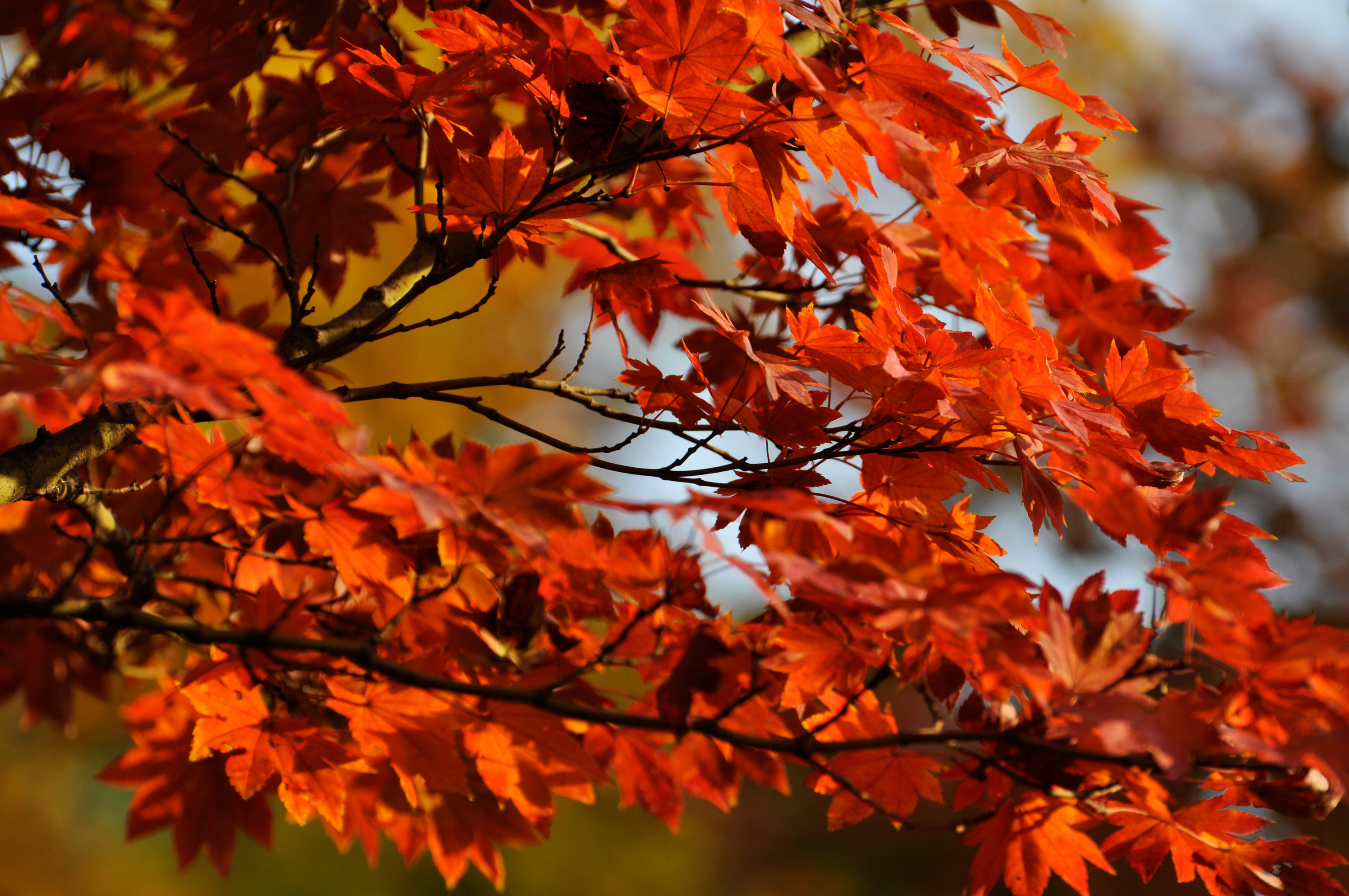 Maple (Acer japonicum) in Showa Memorial Park